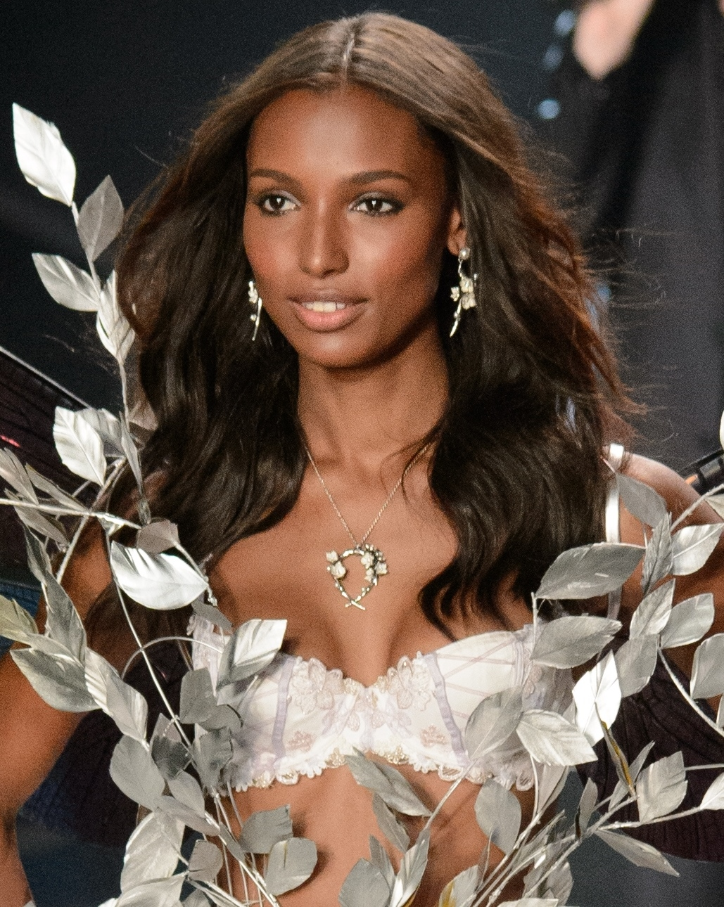 Jasmine Tookes at the 2014 Victoria's Secret Fashion Show in London